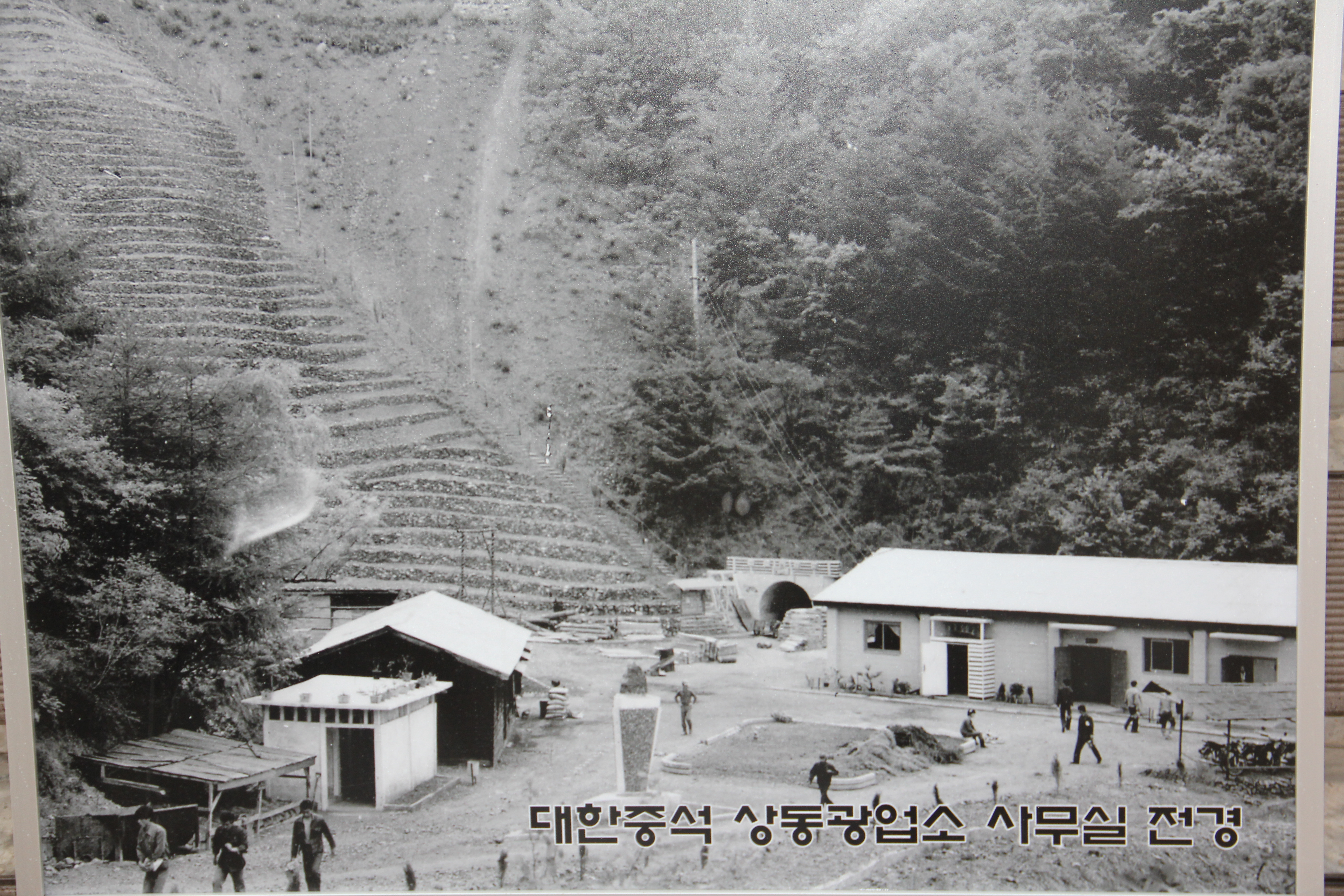 There is an old adit of Sangdong Level (opened in 1916) which was a main gallery of Sangdong Mine and mining office during the KTMC period.